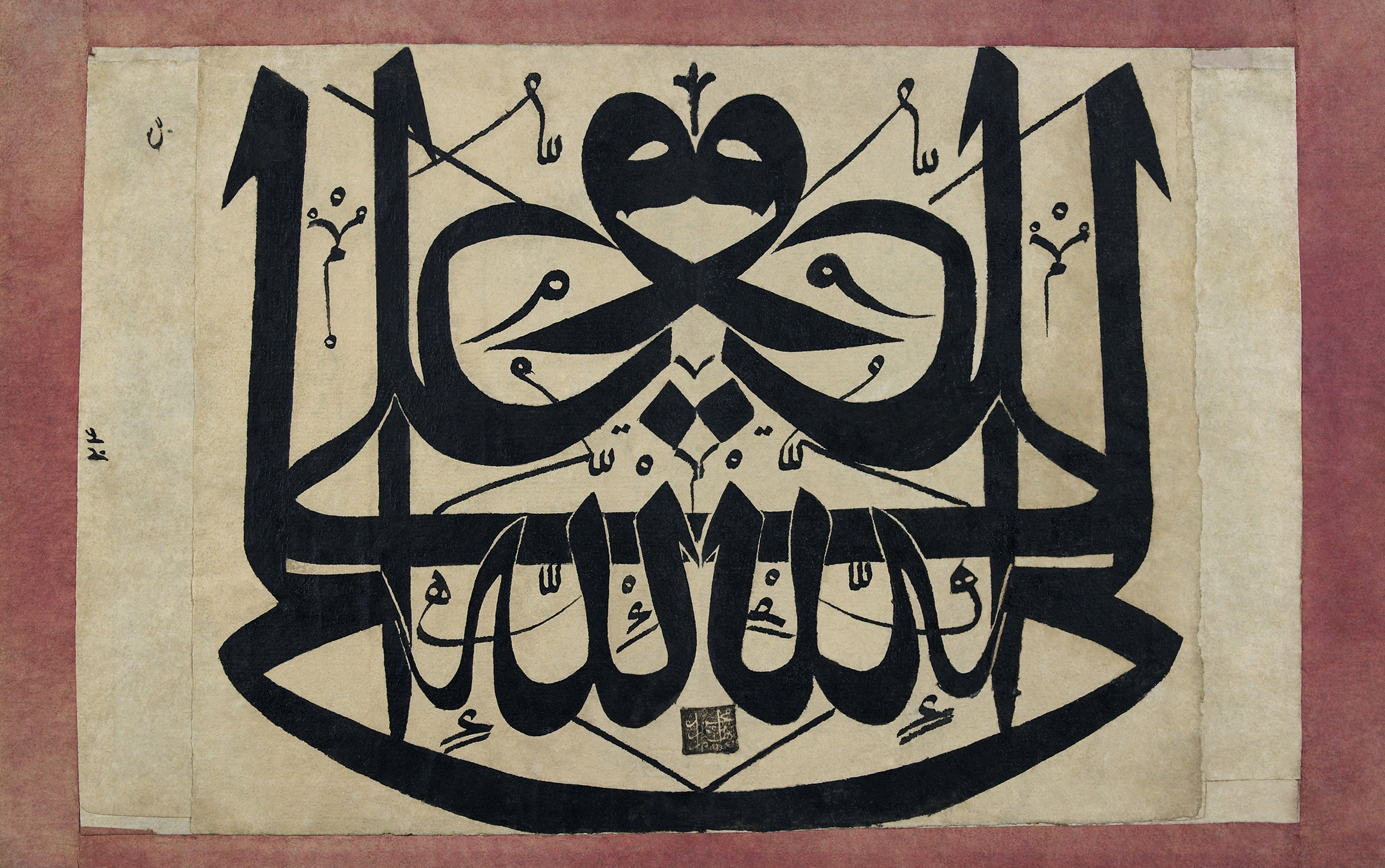 Example of mirror writing in Islamic calligraphy. 18th-century Ottoman levha, or calligraphic panel, which depicts the Shi'i phrase 'Ali is the vicegerent of God' (Arabic علي ولي الله) in obverse and reverse, creating an exact mirror image. The calligrapher has used the central vertical fold in the thick cream-colored paper to help trace the exact calligraphic duplication (Selim 1979, 162) prior to mounting it onto a cardboard and pasting rectangular pink frames along its borders.